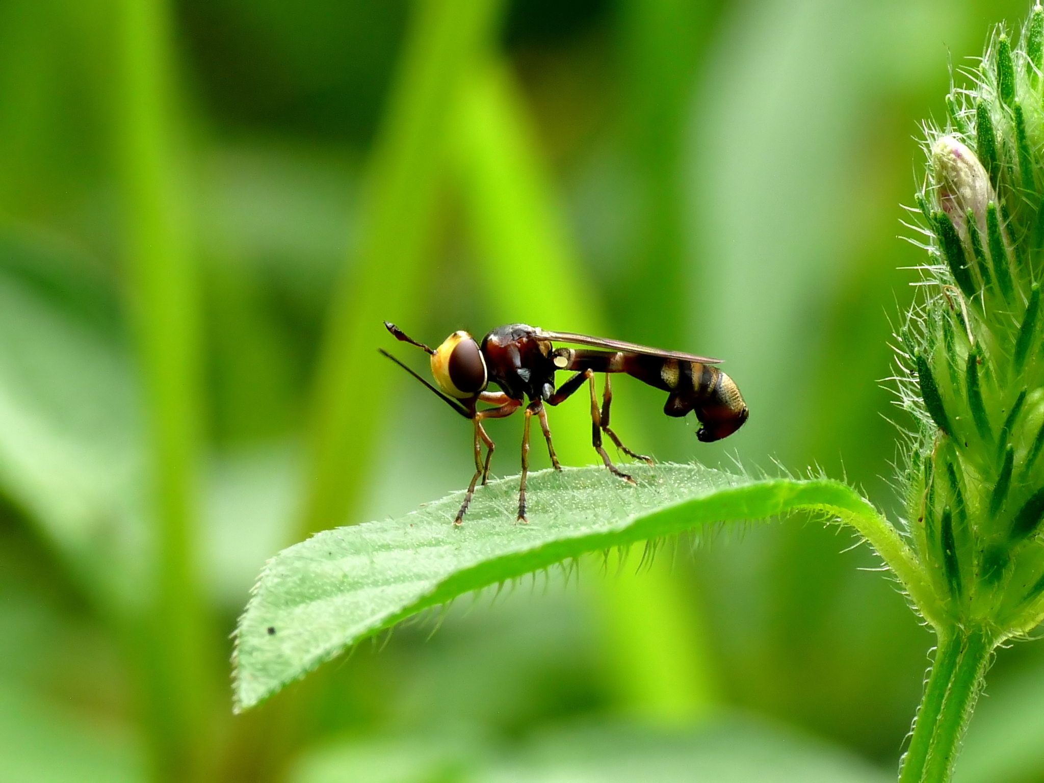 Physocephala cf. vittata. Conopidae, usually known as the thick-headed flies, is a family of flies within the Brachycera suborder of Diptera. Flies of the family Conopidae are distributed worldwide except for the poles and many of the Pacific islands. The majority of conopids are black and yellow, or black and white, and often strikingly resemble wasps, bees, or flies of the family Syrphidae, themselves notable bee mimics. Conopids are most frequently found at flowers, feeding on nectar with their proboscis, which is often long. Taken at Kadavoor, Kerala, India.